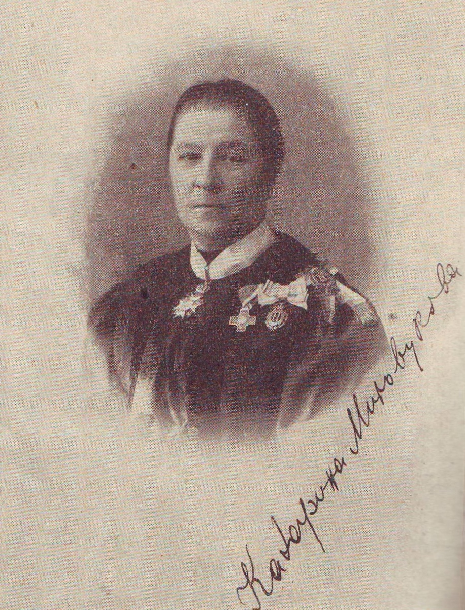 A photograph of Katarina Milovuk (1844-1913), director and lecturer at the Women's Higher School in Belgrade, director of the Higher Serbian Women's School in Thessaloniki, founder of the Belgrade Women's Society and Women's Music Society and editor of the women's magazine Domaćica. Srpski (latinica): Fotografija Katarine Milovuk (1844-1913), upravnice i predavača na Višoj ženskoj školi u Beogradu, upravnice Više srpske ženske škole u Solunu, osnivača Beogradskog ženskog društva i Ženskog muzičkog društva i urednice ženskog časopisa Domaćica.